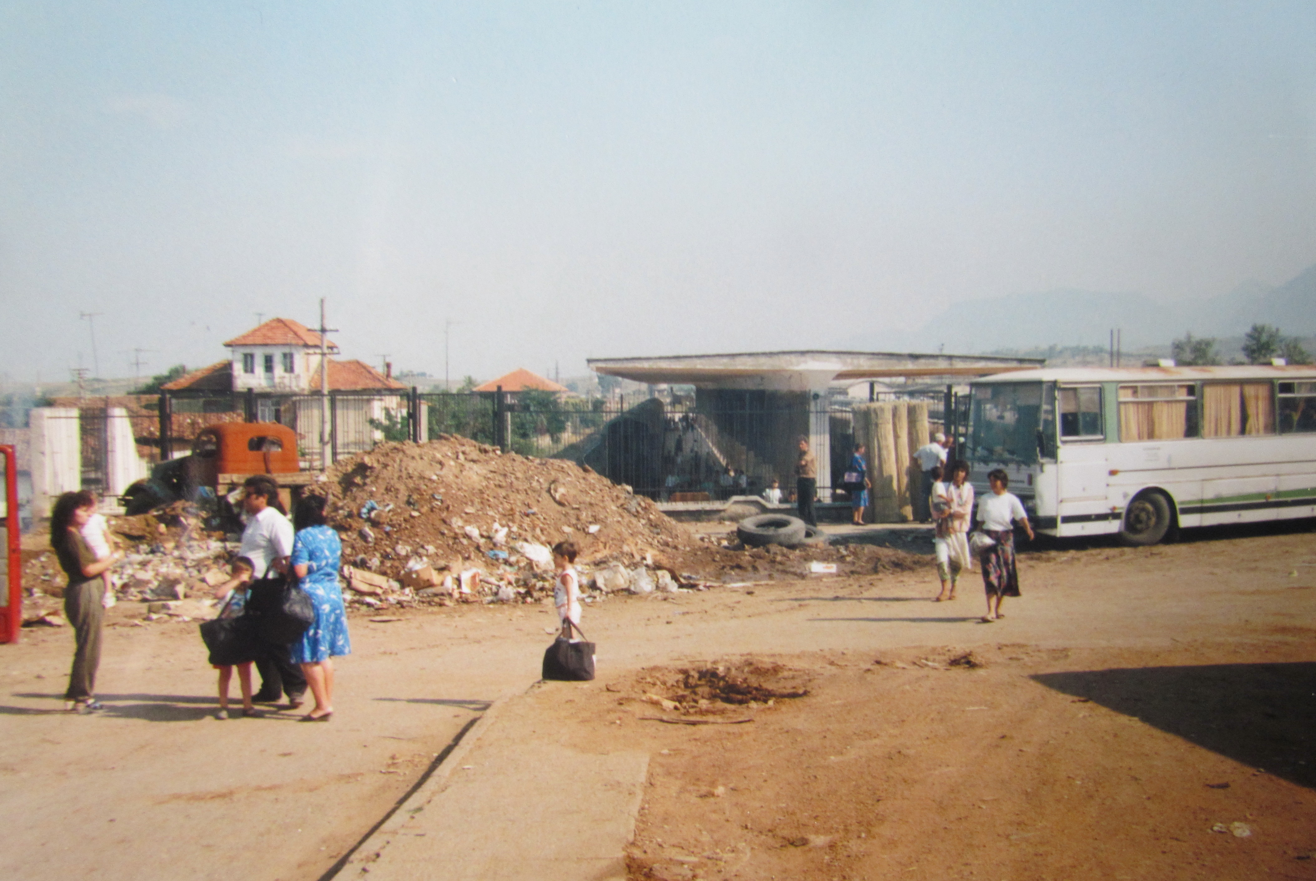 Tirana railway station in 1995